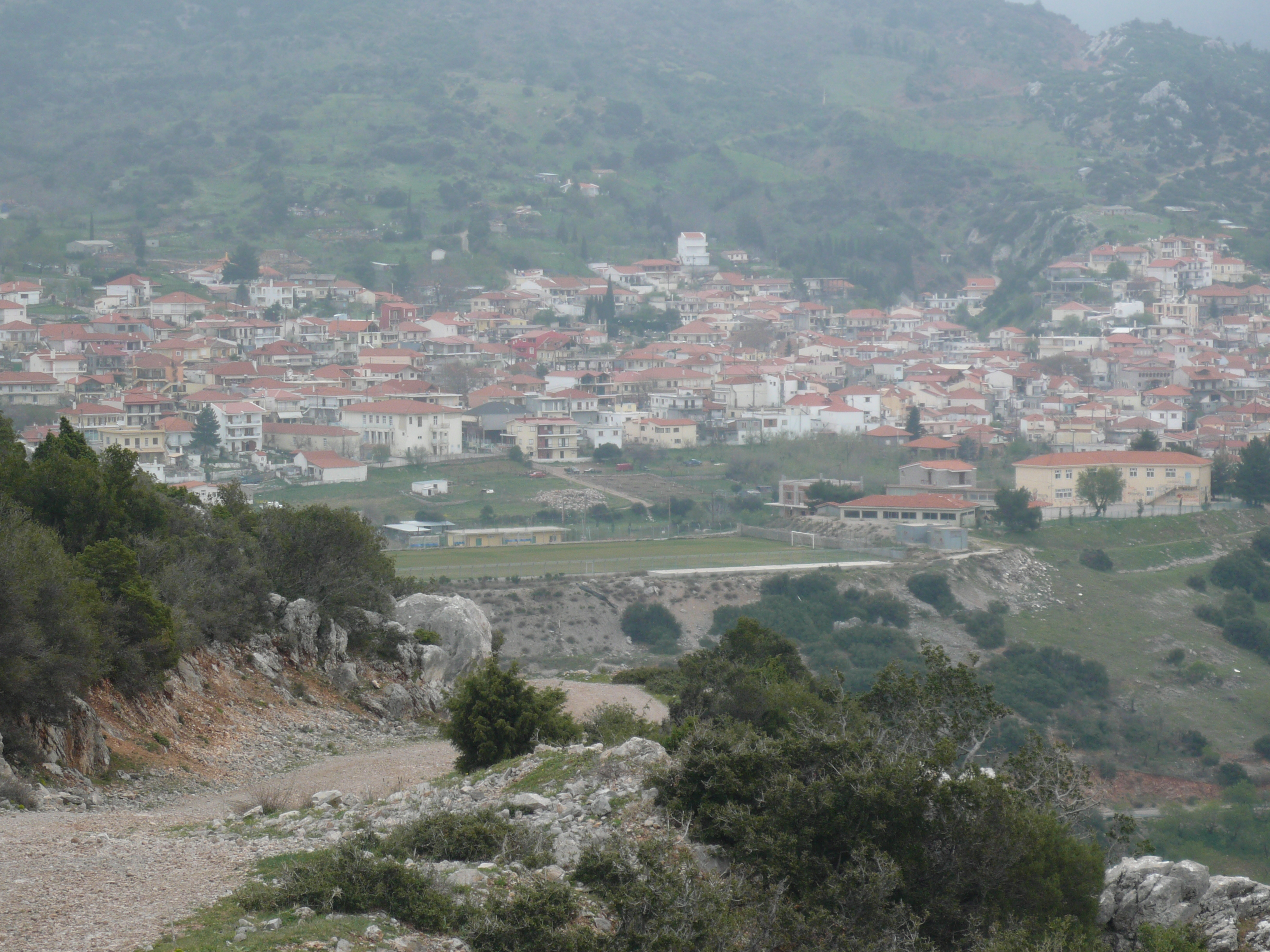 Kyriaki, greek village in Boeotia Prefecture